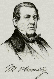 Meredith Poindexter Gentry, US Representative from Tennessee